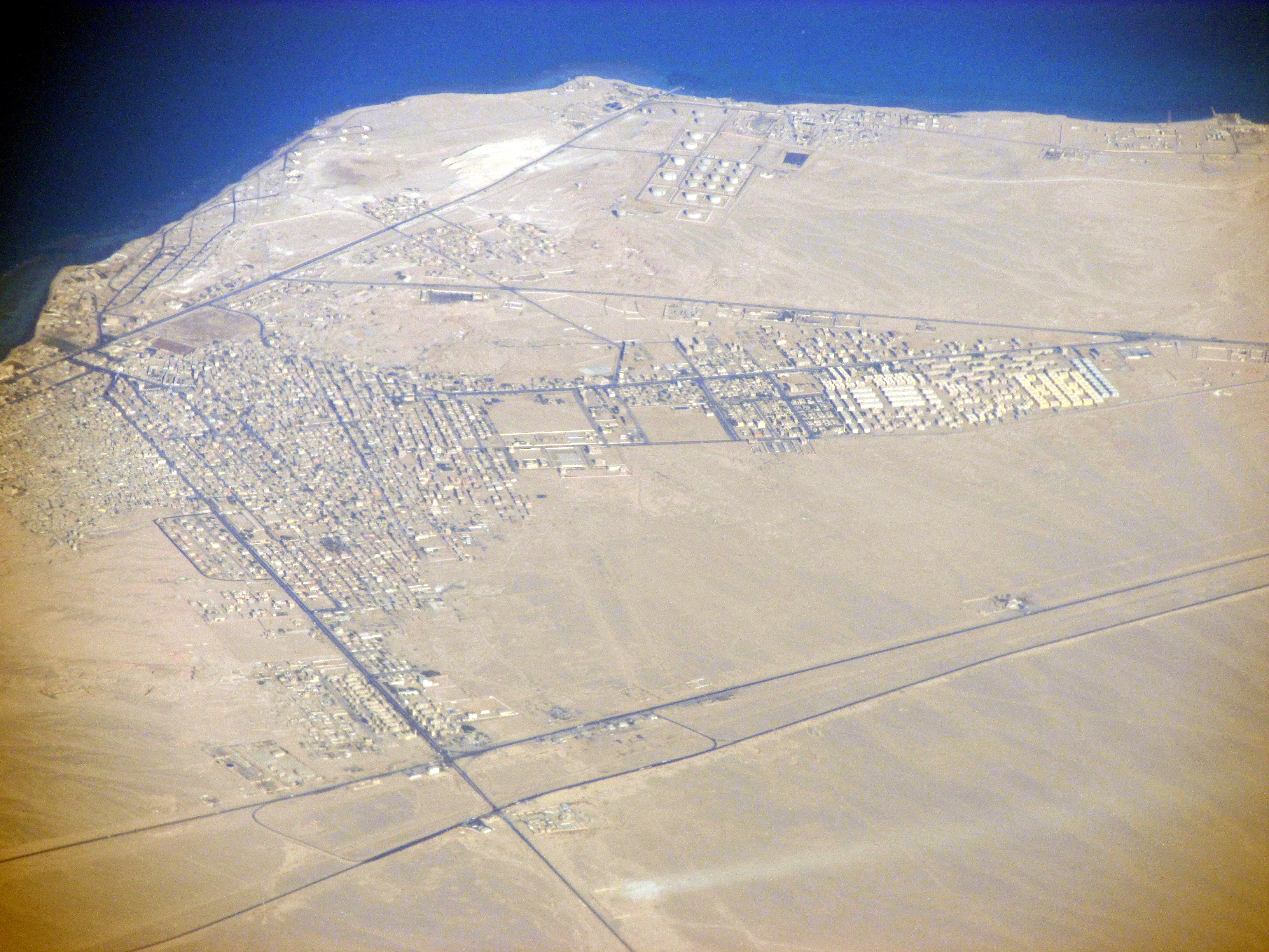 View of Ras Ghareb, Egypt, from a plane at cruising altitude.